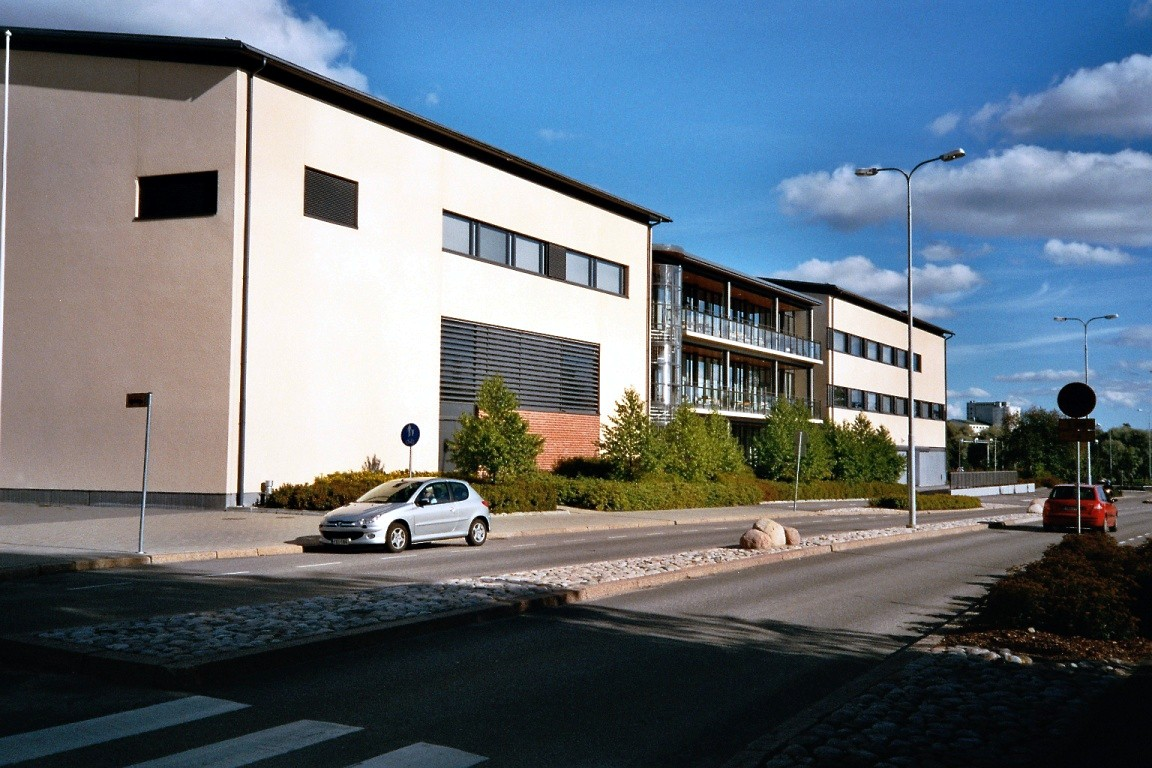 Järvenpää high school in Järvenpää, Finland